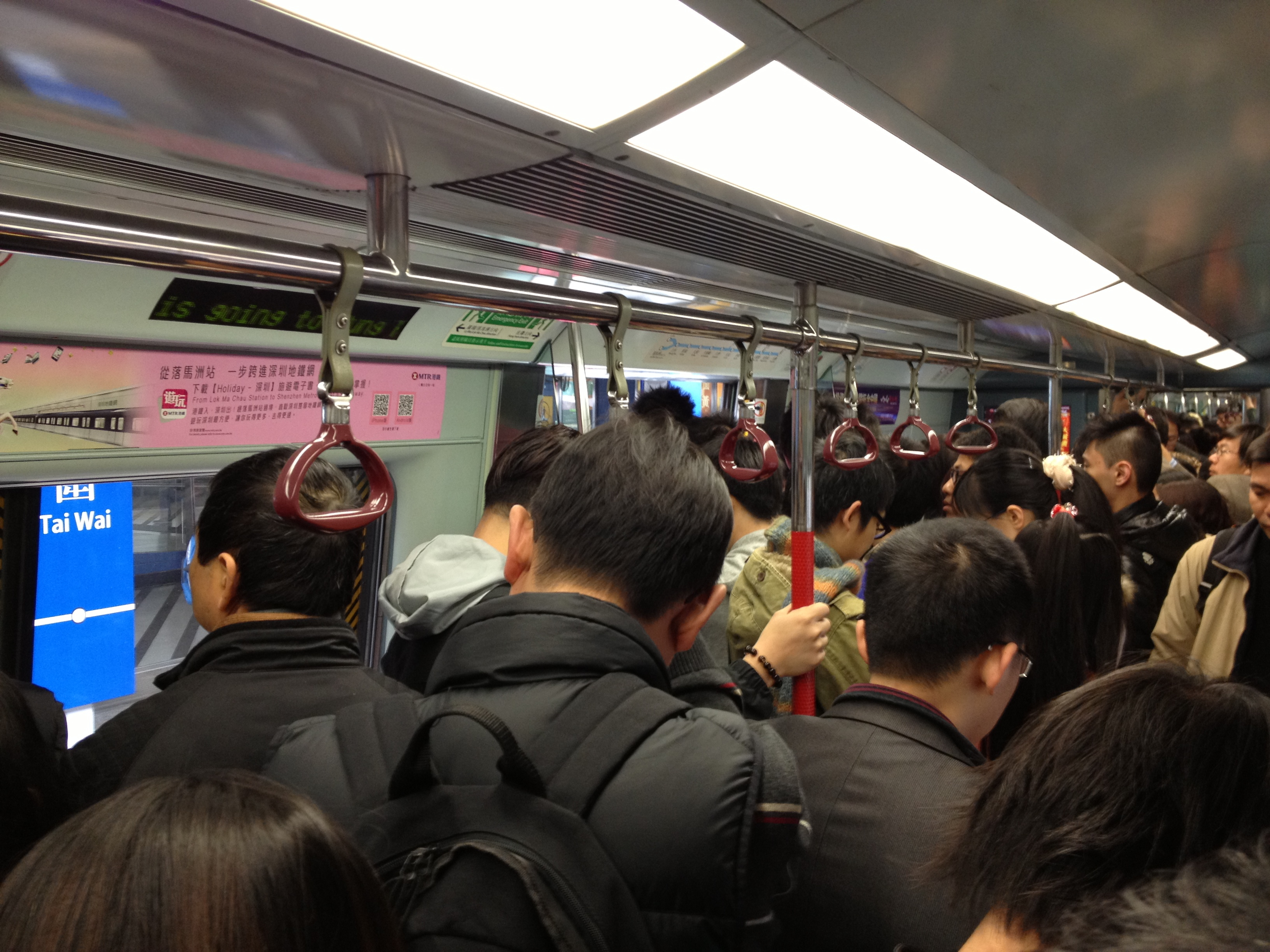 East Rail Line Train Overcrowded